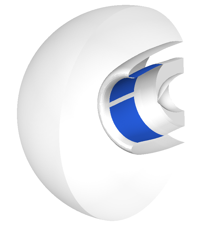 Graphic representation of an acoustic liner installed on a turbofan engine inlet